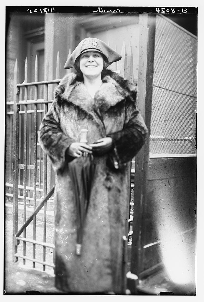 Maria Mueller at the Met Opera in 1918